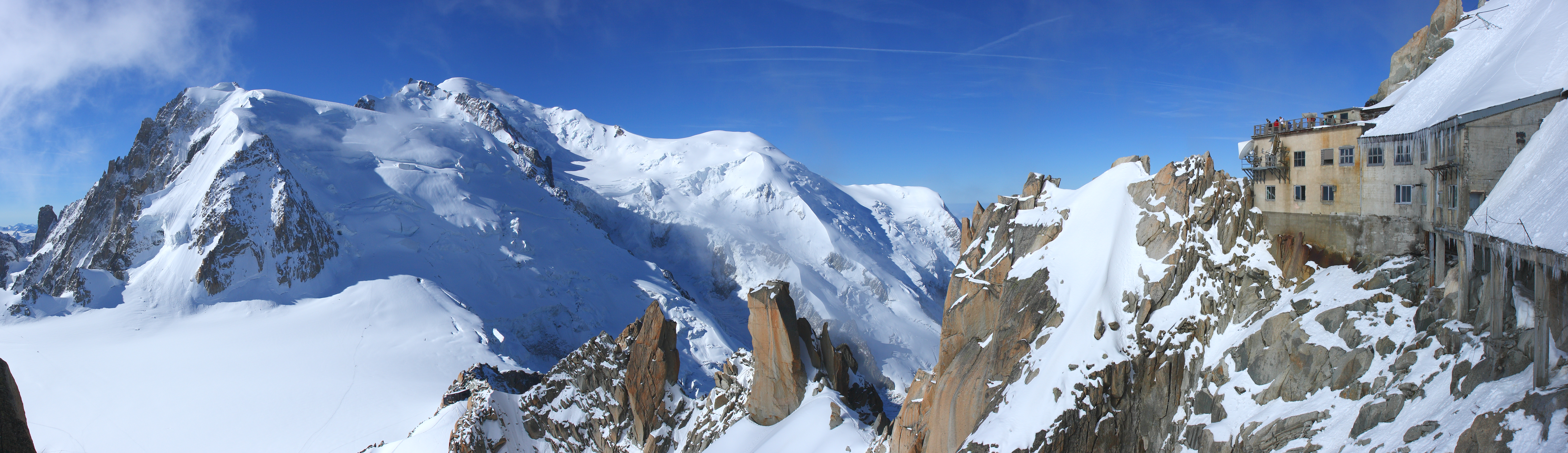 The Mount Blanc seen from the Aiguille Du Midi's Rébuffat platform. HDR panorama created from stitching 3 pictures taken with 3 different expositions.